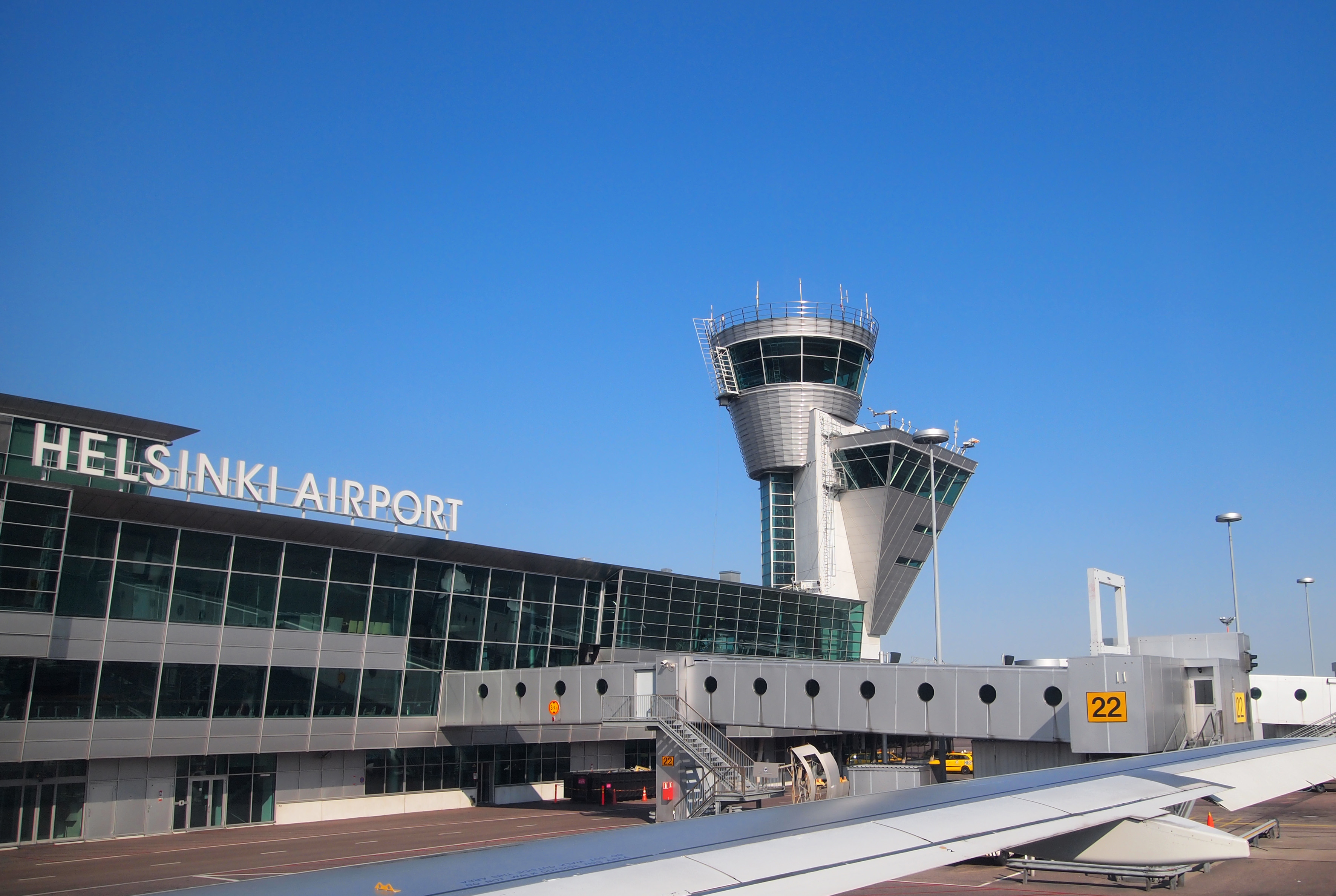 Helsinki-Vantaa Airport near the terminal 2. This photograph was taken with an Olympus E-PL1